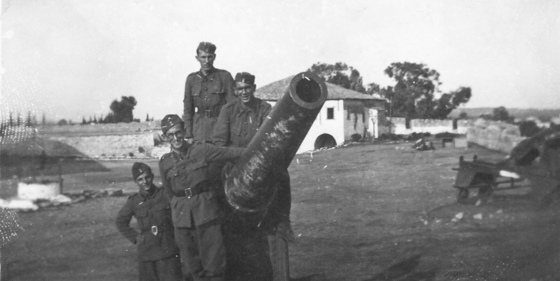 The castle of St. George's in Preveza, photographed by unknown photographer in c. 1930